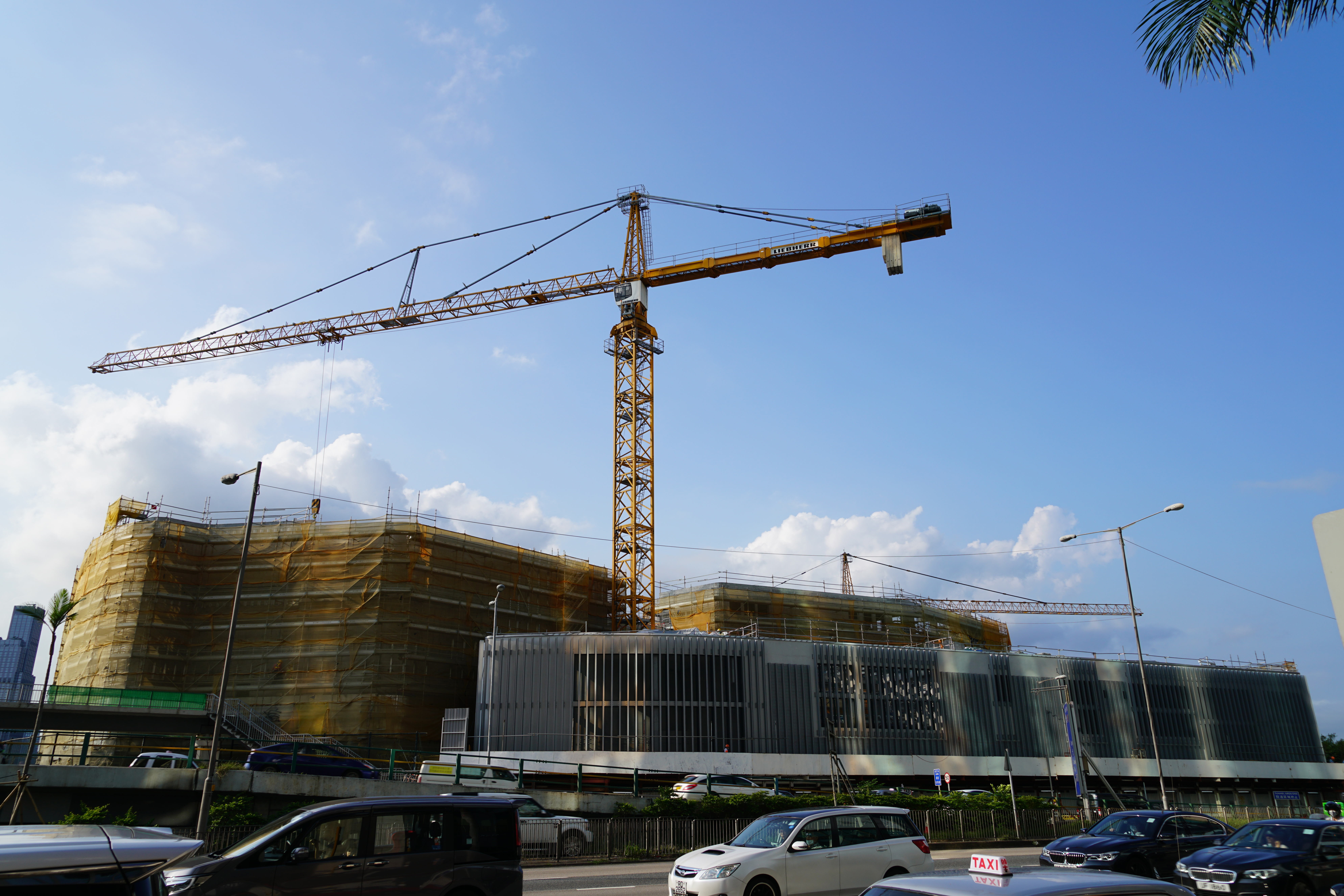 Police Officers' Club